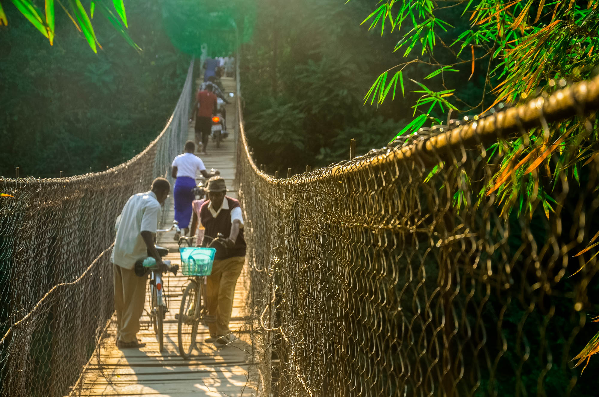 Floating Rope Bridge (Tape) Available in Mbeya Region in Kyela District. it is found in the Kiwira River with its source in Rungwe district and then pours its water into Lake Nyasa. This bridge is an important transportation link that connects the wards of the mainland towards Malawi.The river is also known for the dangerous crocodiles so its very scary if crossing for the first time. Since there is no proper record ,due to the oldness of the bridge it also believed was build during the Germany colonial rule in East Africa ,one of the local villagers said. This is an image with the theme "Africa on the Move or Transport" from: Tanzania